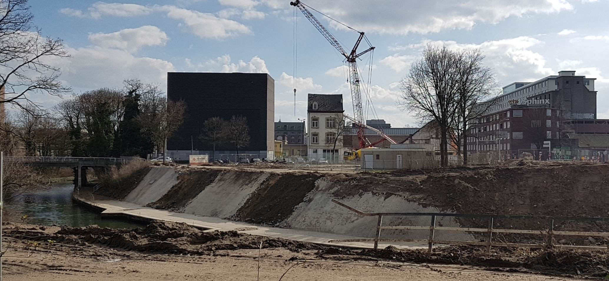 View of Zuid-Willemsvaart and some remnants of the old Noorderbrug sliproad at Bosscherweg and Commandeurslaan in Maastricht, Netherlands.